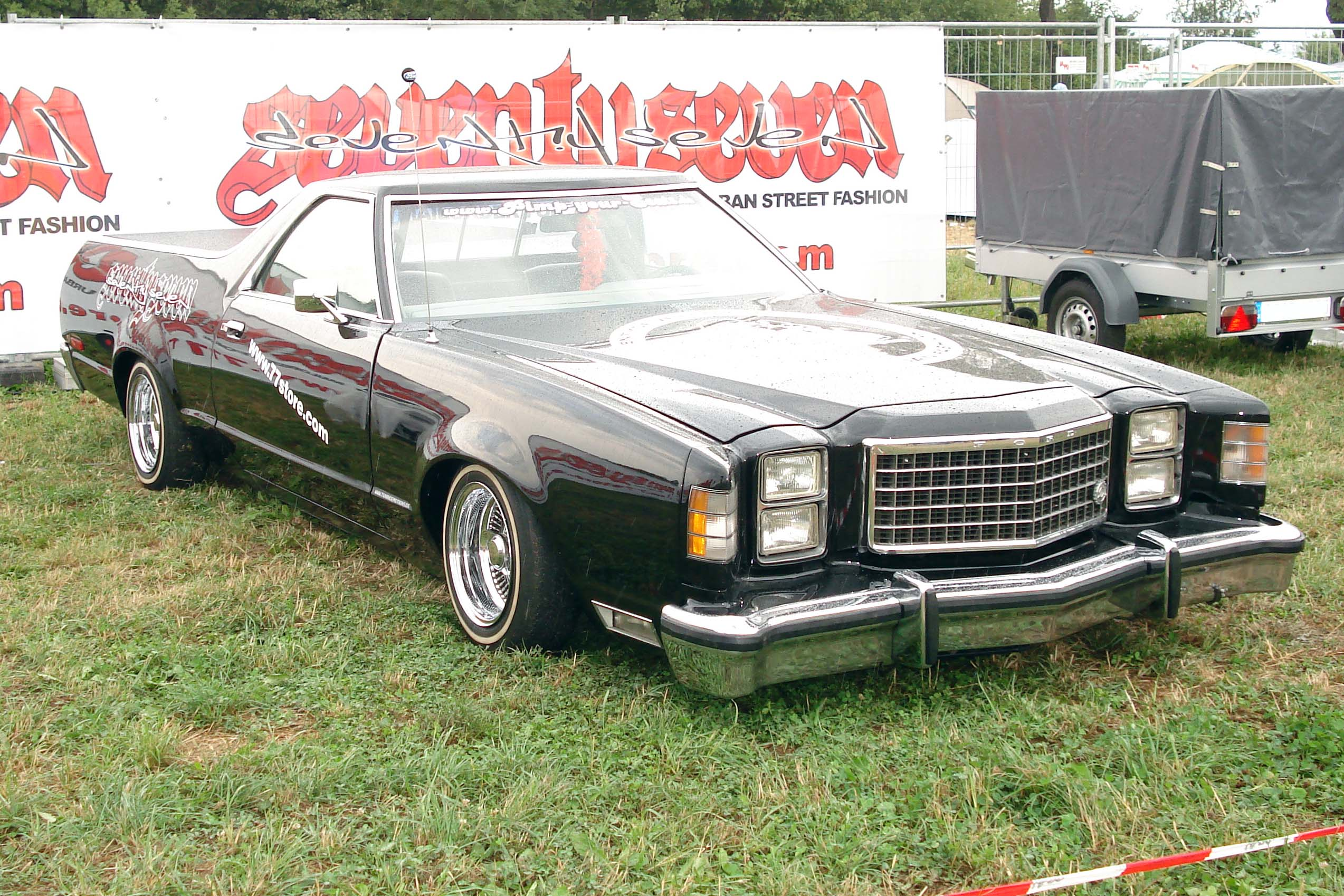 1977-1979 Ford Ranchero Lowrider